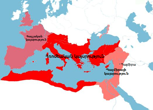 Roman world in 271 AD